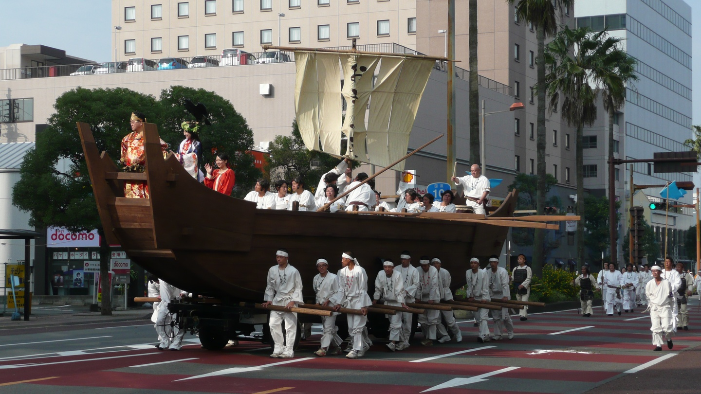 Miyazaki Shrine Grand Festival in 2008 - Okiyo - Maru.